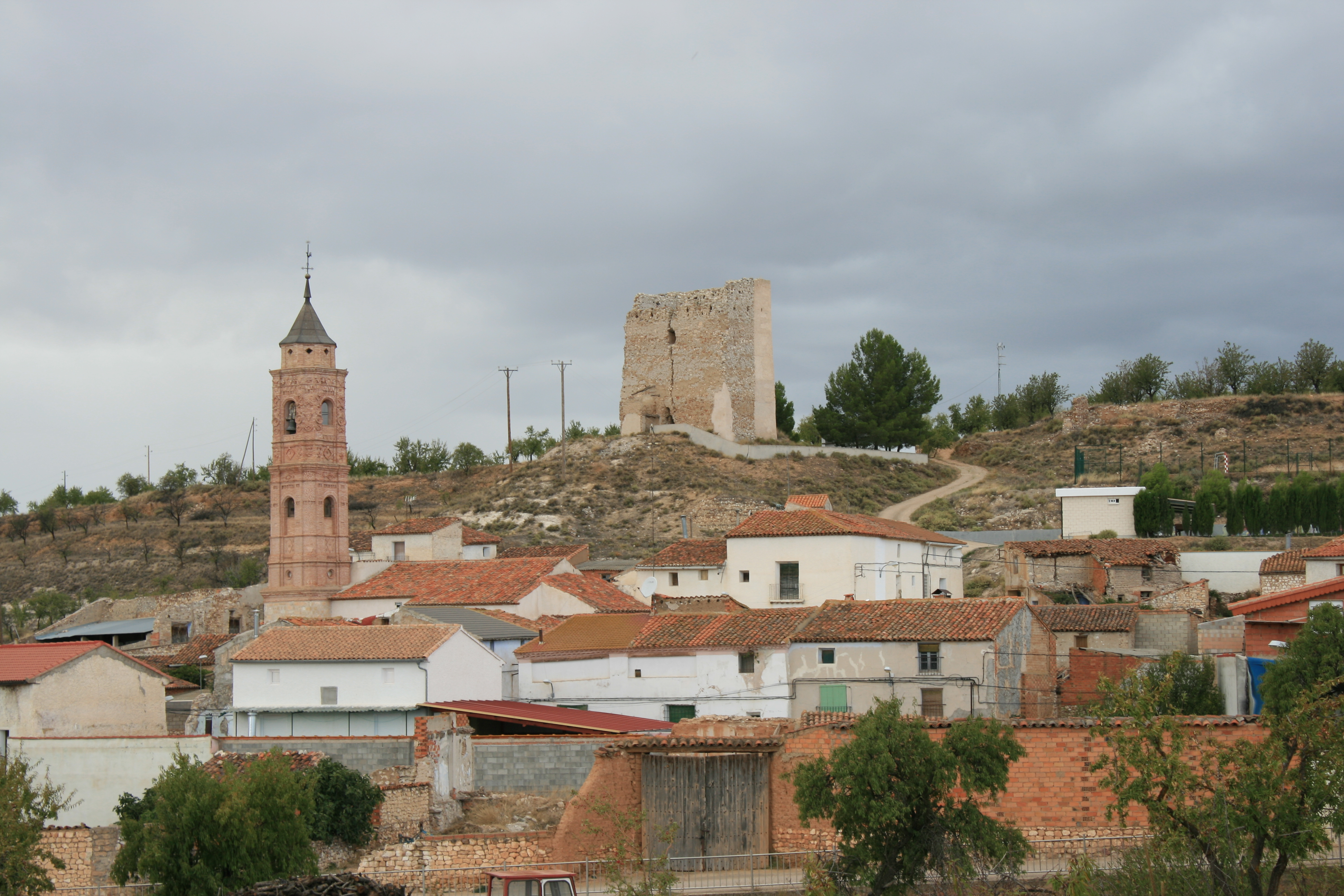 View of Ruesca, Zaragoza, Spain